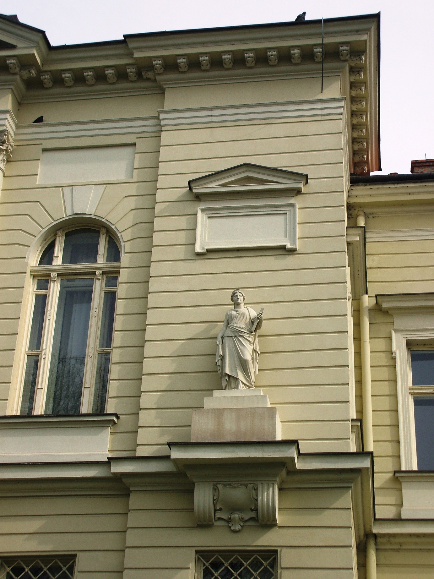 Sremska Mitrovica - Old Court Hall - Facade Detail